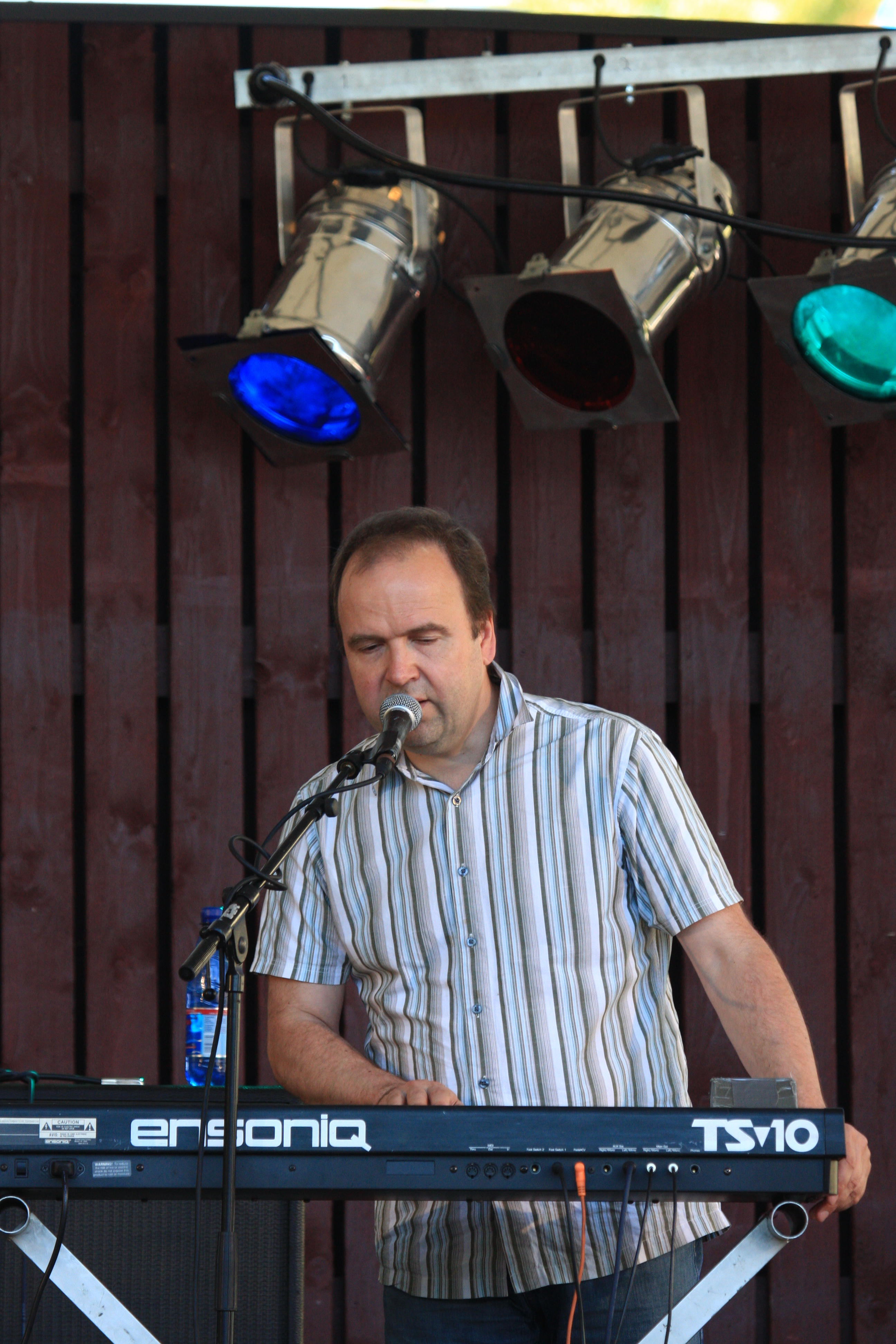 Olli Heikkinen from Miljoonasade-group